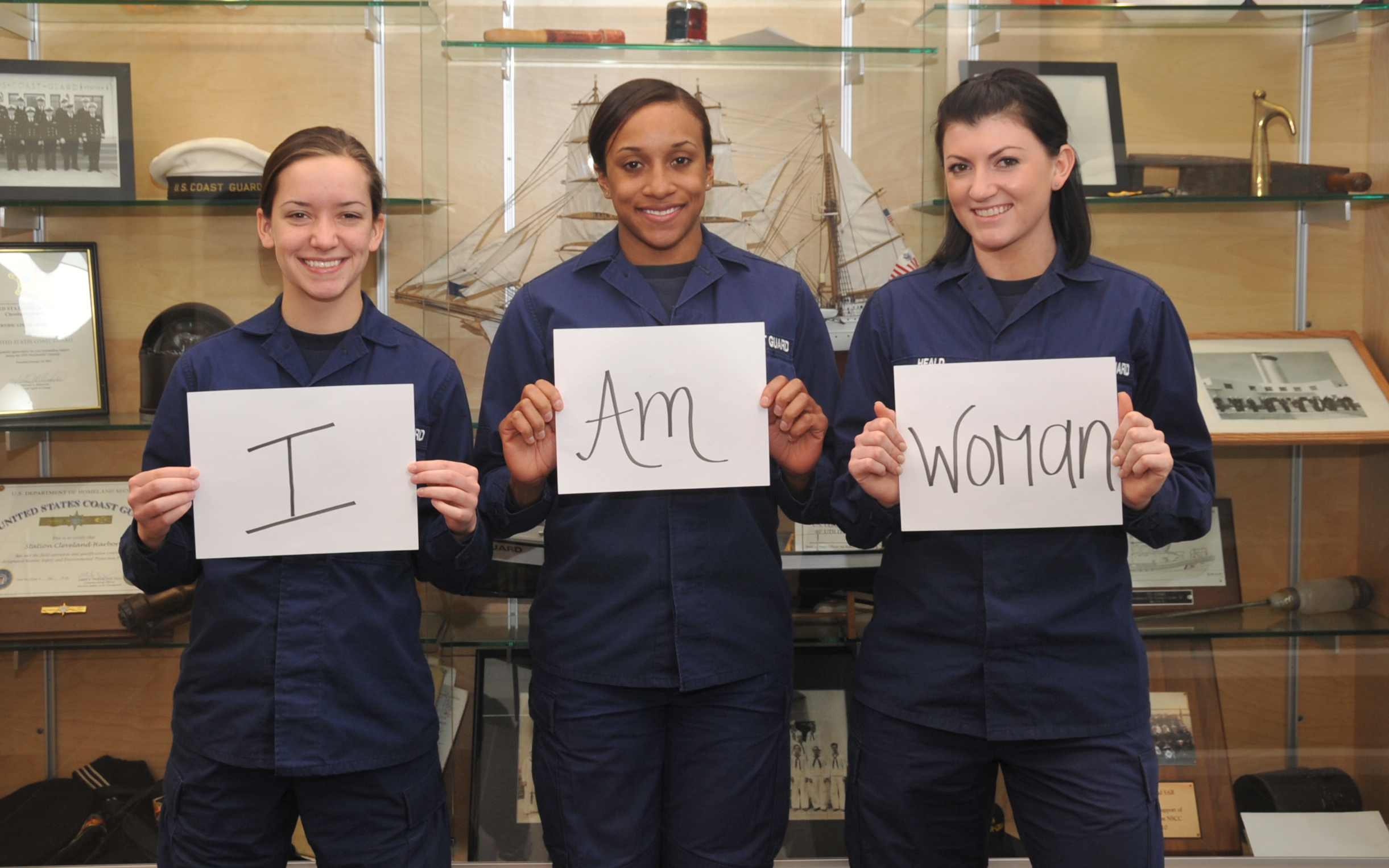 Coast Guard Seamen Brooke Sauers, Nikura Walls and Sierra Heald pose for a picture at Coast Guard Station Cleveland Harbor, Ohio, March 13, 2013. Sauers, Walls and Heald posed for the photo as part of a blog celebrating women in the Coast Guard for Women's History Month. (U.S. Coast Guard photo by Petty Officer 3rd Class Lauren Laughlin)